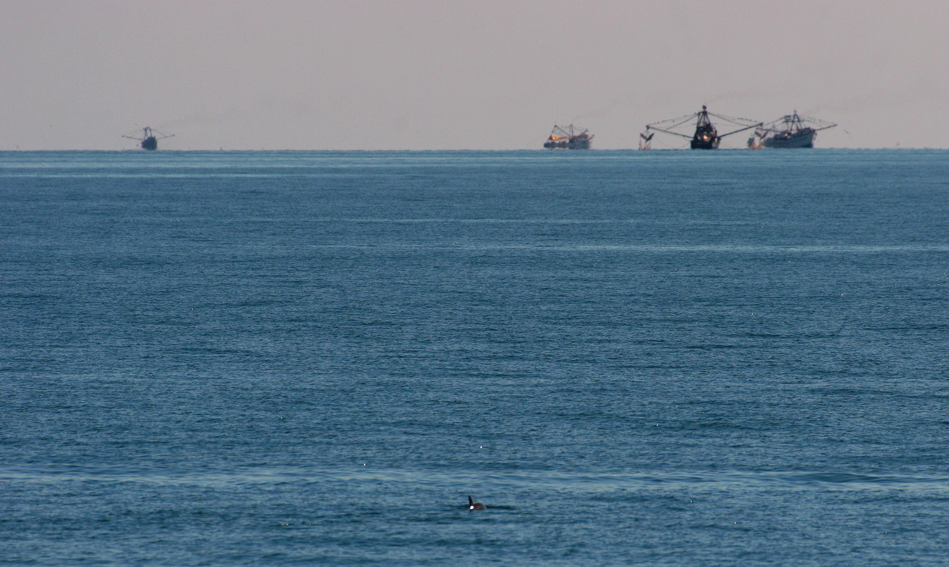 A vaquita (Phocoena sinus) in the foreground with fishing boats in the background. The vaquita is a critically endangered porpoise species endemic to the northern part of the Gulf of California. It is considered the smallest and most endangered cetacean in the world. Vaquita photo taken under permit (Oficio No. DR/488/08) from the Secretaria de Medio Ambiente y Recursos Naturales (SEMARNAT), within a natural protected area subject to special management and decreed as such by the Mexican Government. The original NOAA image has been modified by cropping.